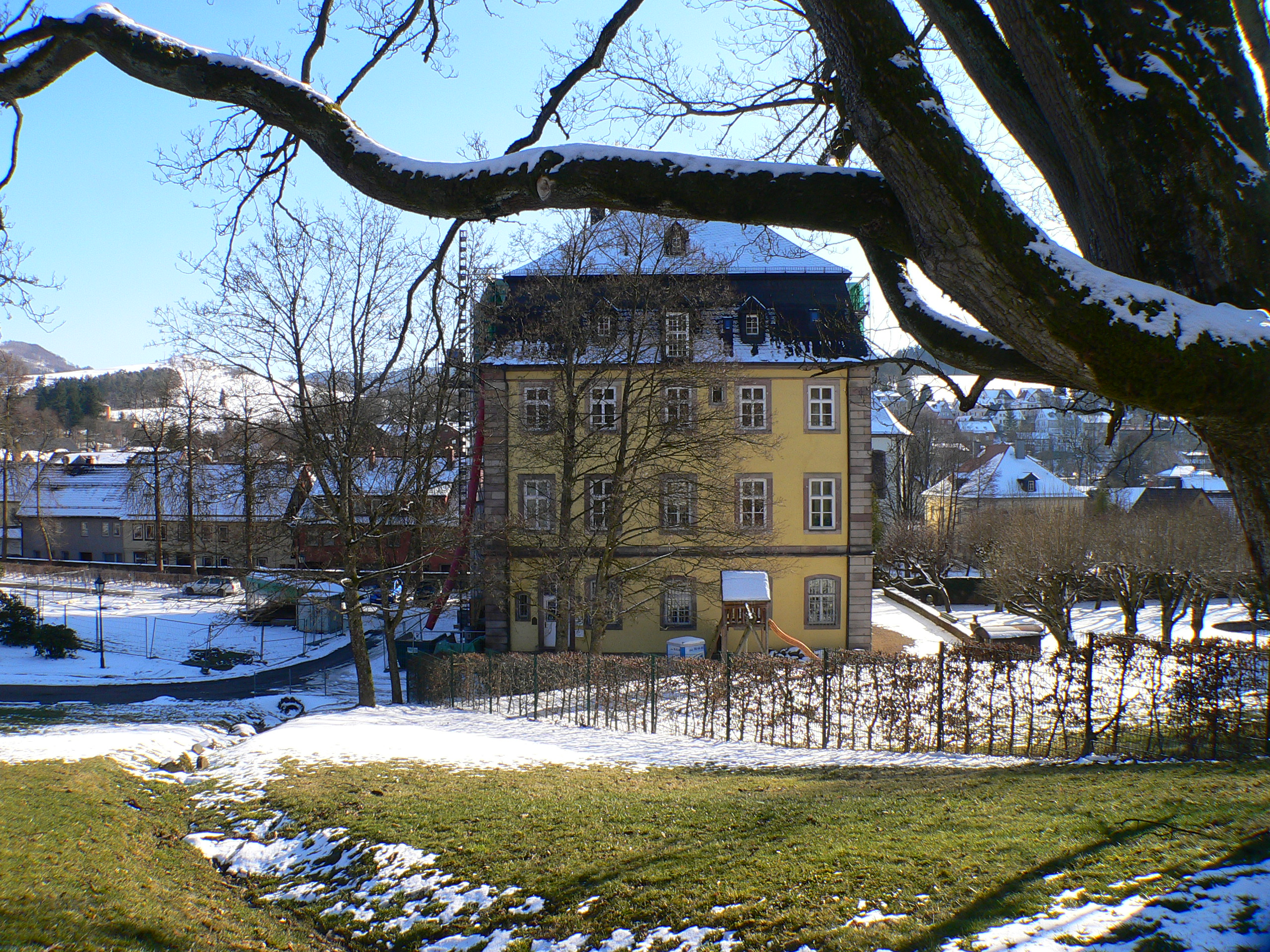 Northern side of the baroque castle in Gersfeld